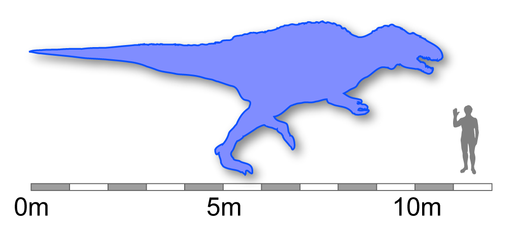 scale diagram by me user debivort october 2007